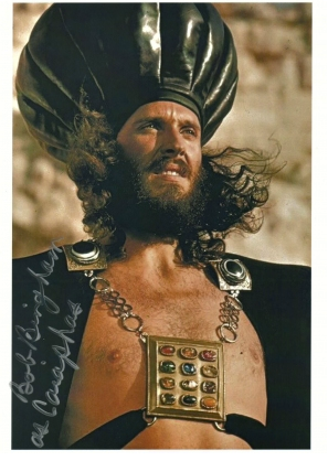 Publicity photo of American entertainer Bob Bingham promoting his role as Caiaphas in the 1973 feature film Jesus Christ Superstar.